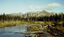 Shores of Lake Clark within the Kijik Archeological District, located 30 miles northeast of the city of Nondalton in the Lake and Peninsula Borough of the U.S. state of Alaska. The district, which covers three square miles of land around the lake, is a National Historic Landmark.